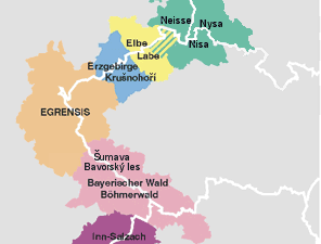 Euregions with german and czech share (partly too with polish and austria).